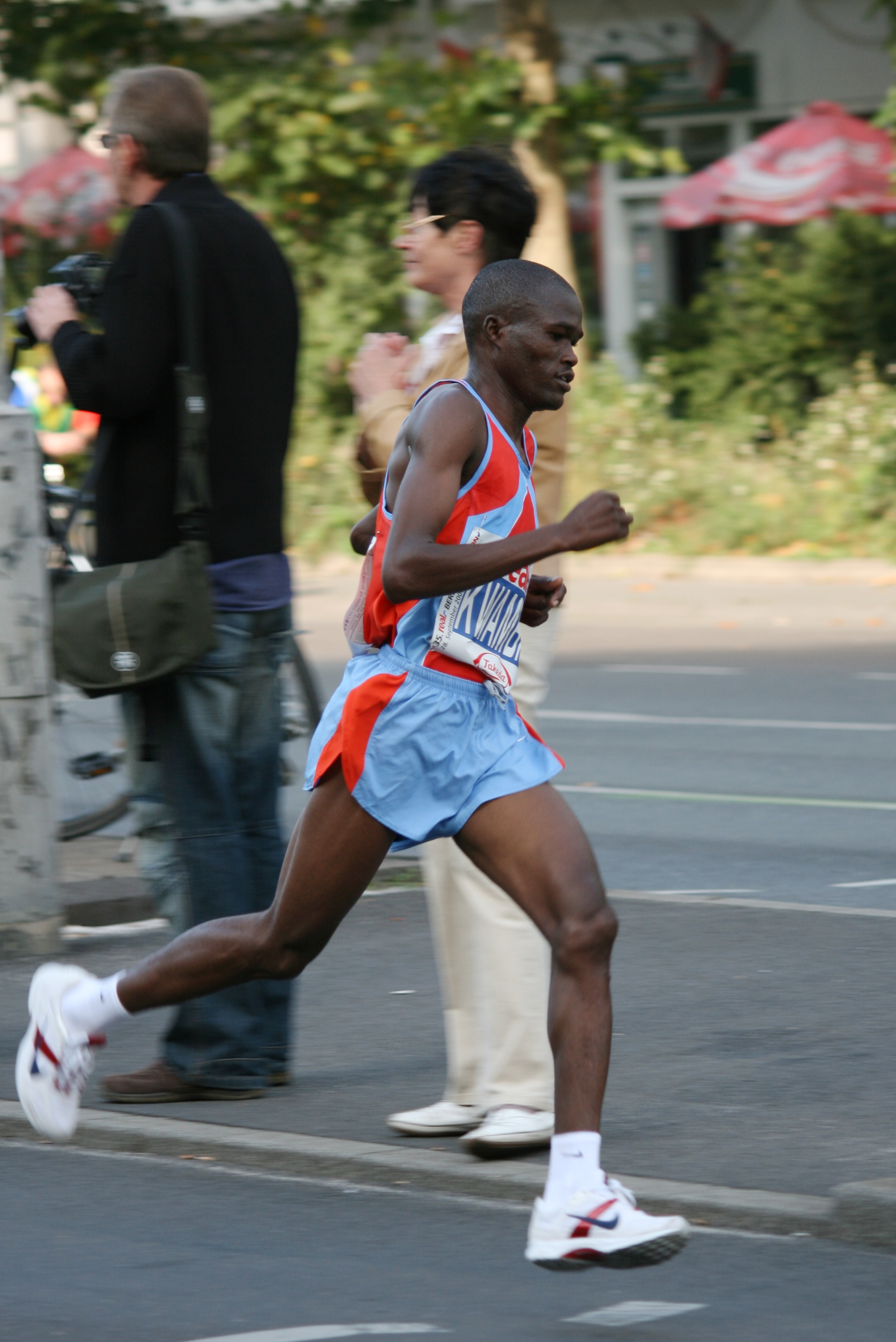 James Kipsang Kwambai, Kenyan long-distance runner, at the Berlinmarathon 2008